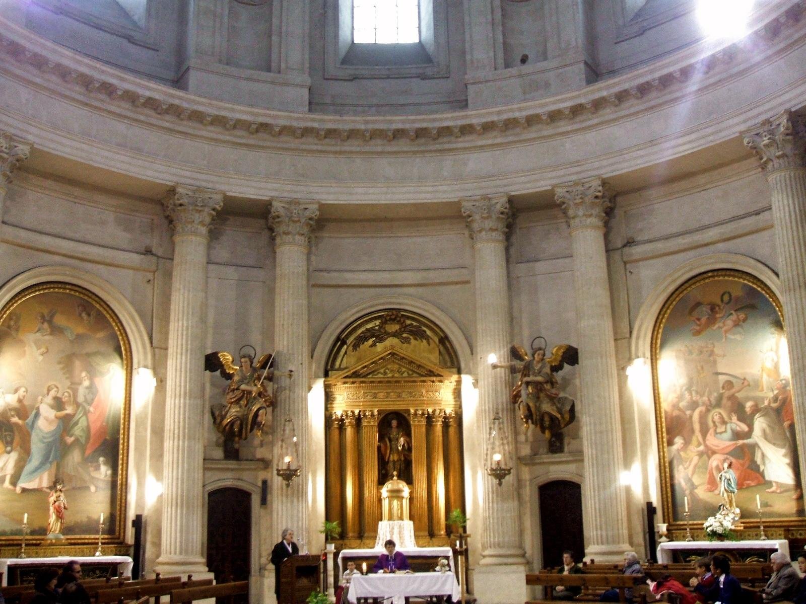 Iglesia de Santa Victoria, Córdoba (Andalucía, España)